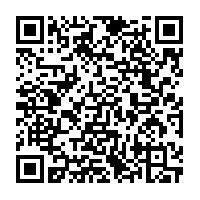 This a QR code tag used in an actual fAR-Play demonstration, used to initiate a short game made for a class demonstration of the technology.